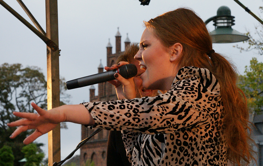 Anna Faroe Faroese/Danish singer during concert at Staendertorvet, the main square in Roskilde, Denmark